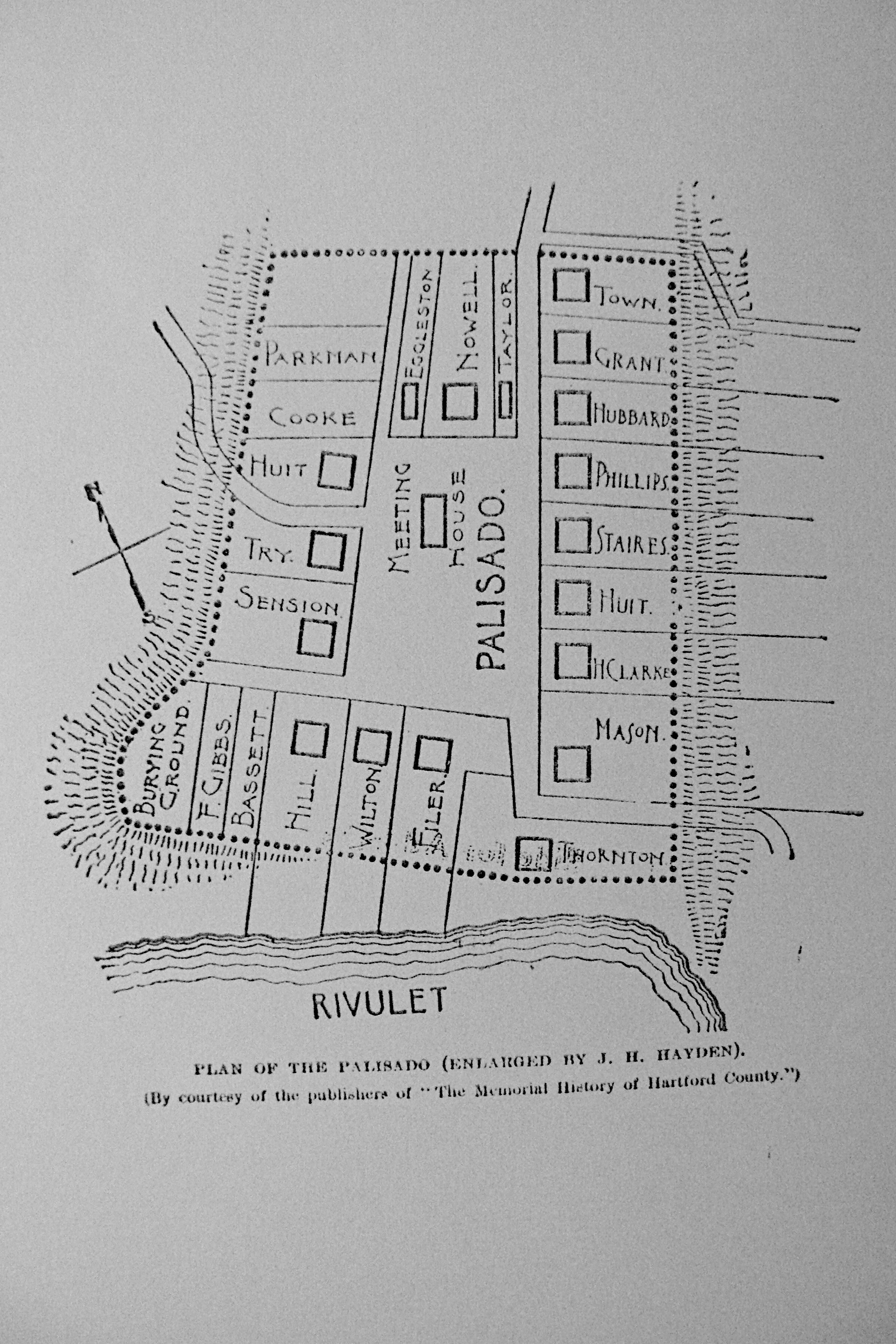 Temporary Plaster Monument